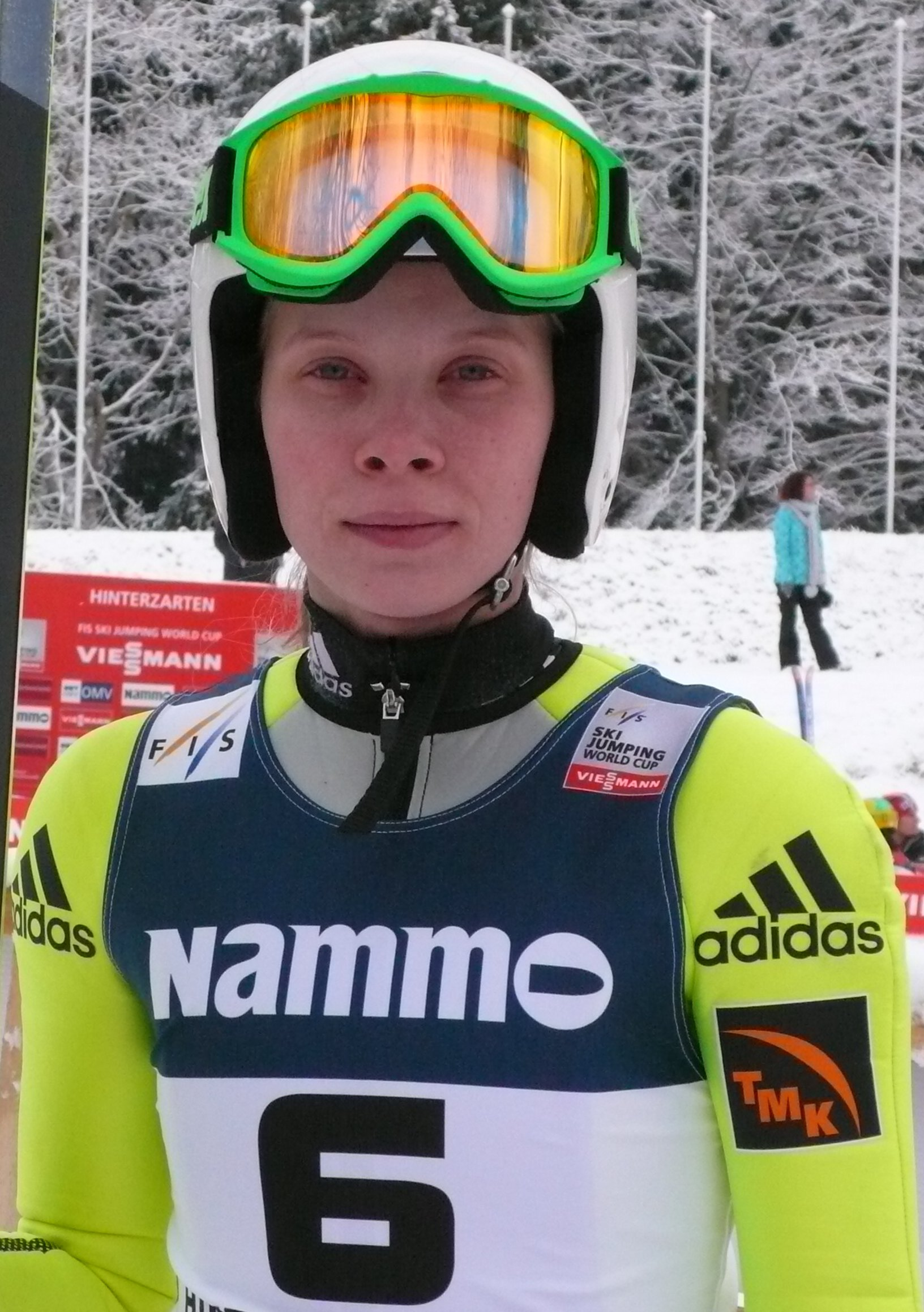 Anastasiya Gladysheva